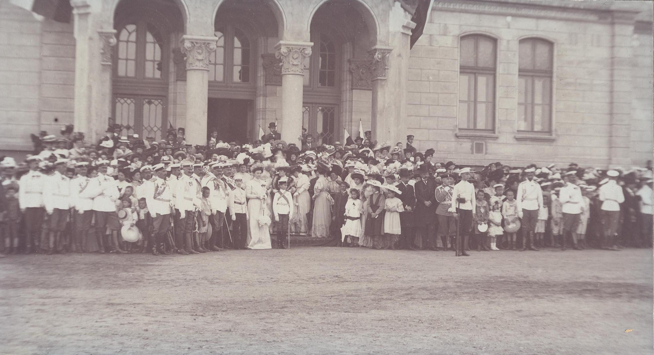 Military parades in Sofia, Bulgaria, 1923.